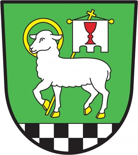 znak obce Morašice